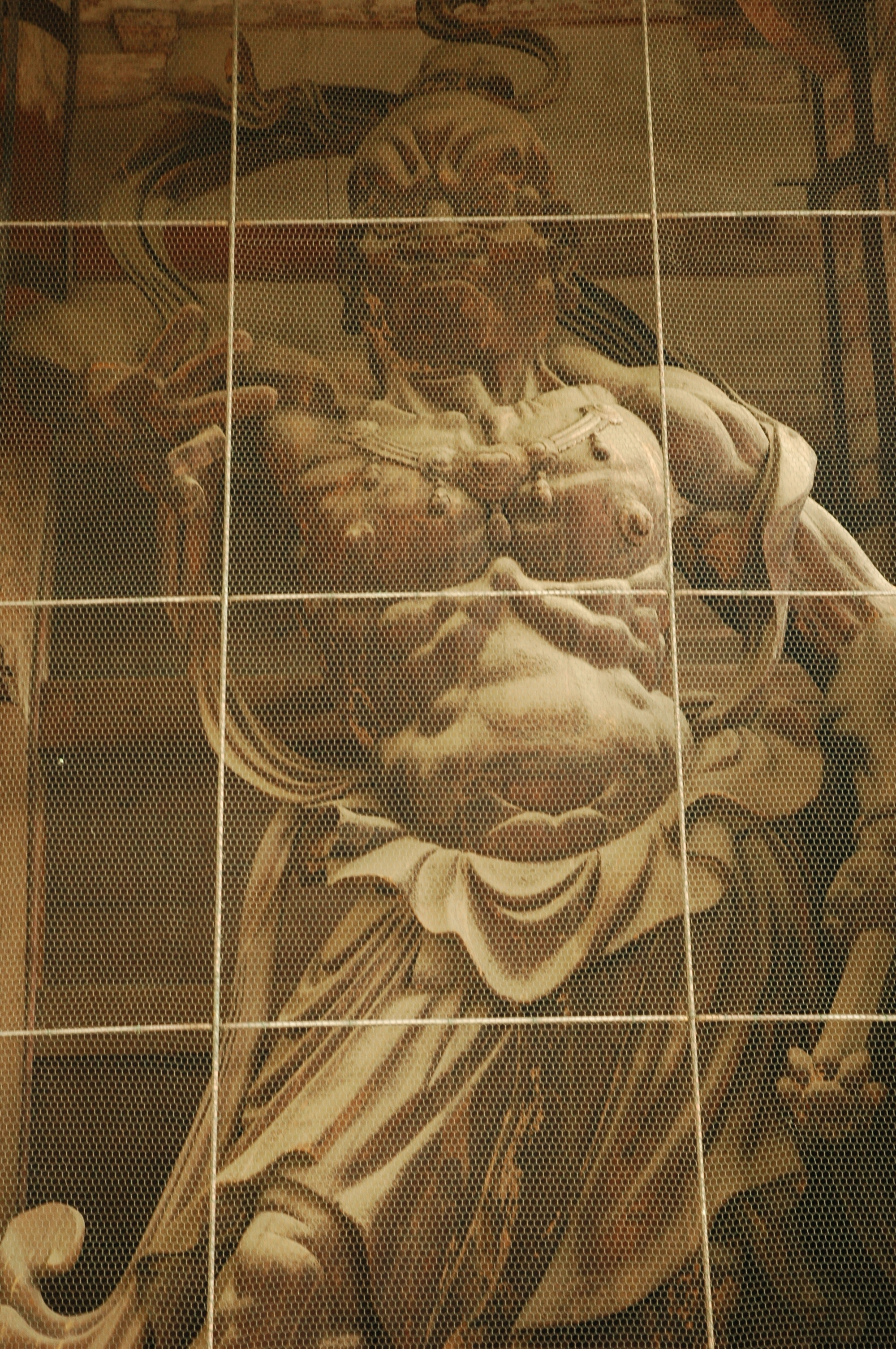 One of the two Niō or Kongōrikishi guardians at the Nandaimon (南大門) of Tōdai-ji in Nara, Japan. This picture shows Ungyō which is 842.3cm tall.